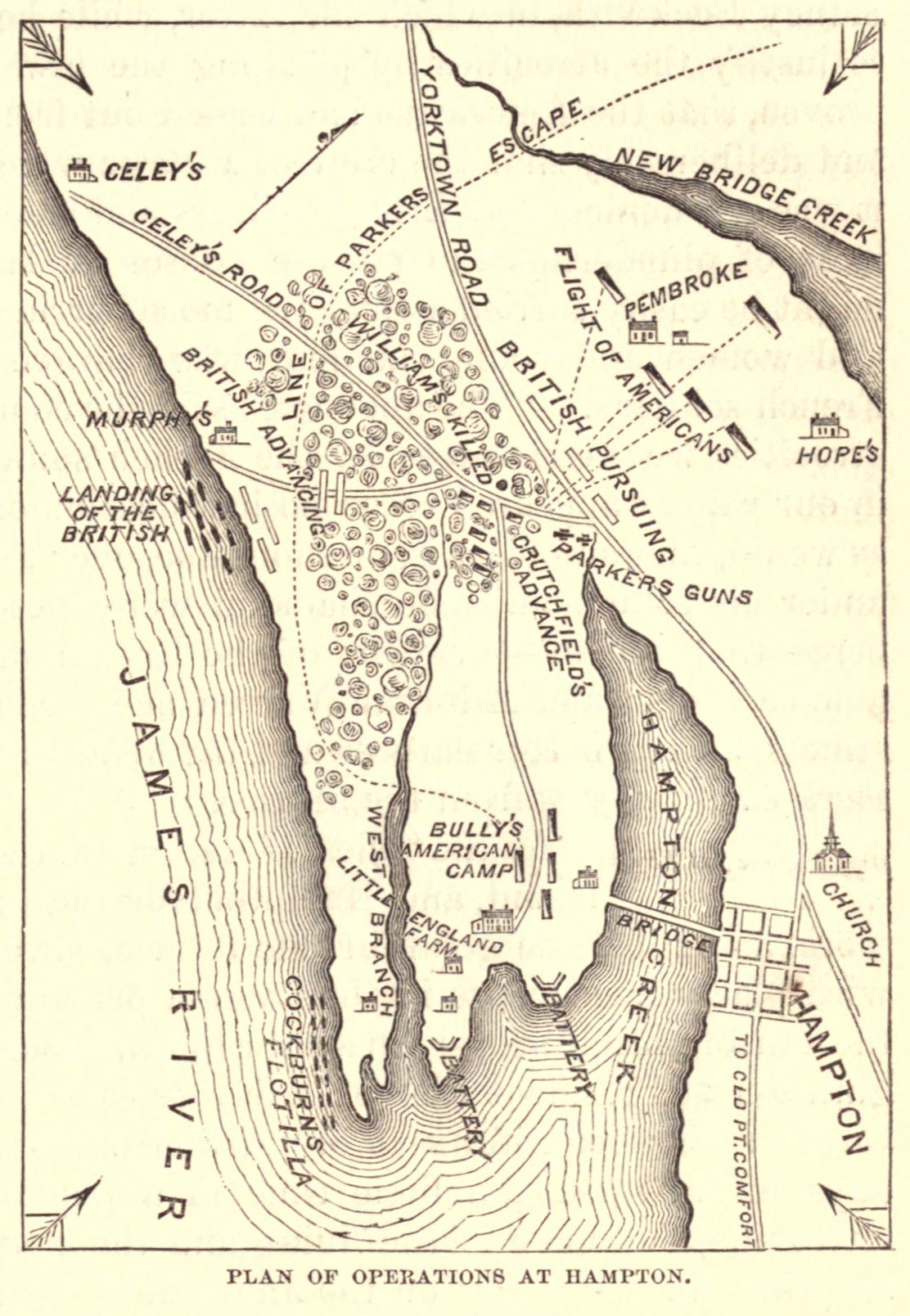 Hampton